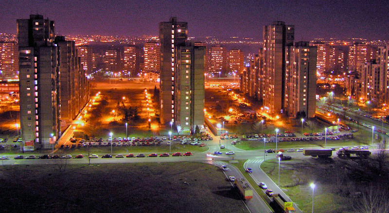 Blok 62 of Novi Beograd, Belgrade, Serbia